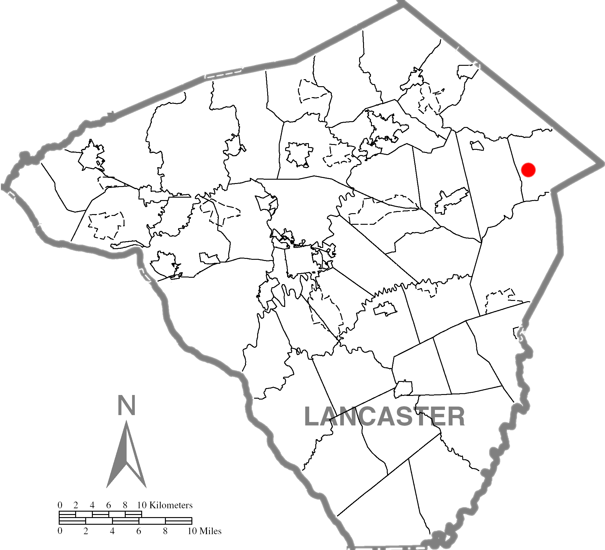 Lancaster County dot map of the Pool Forge Covered Bridge.